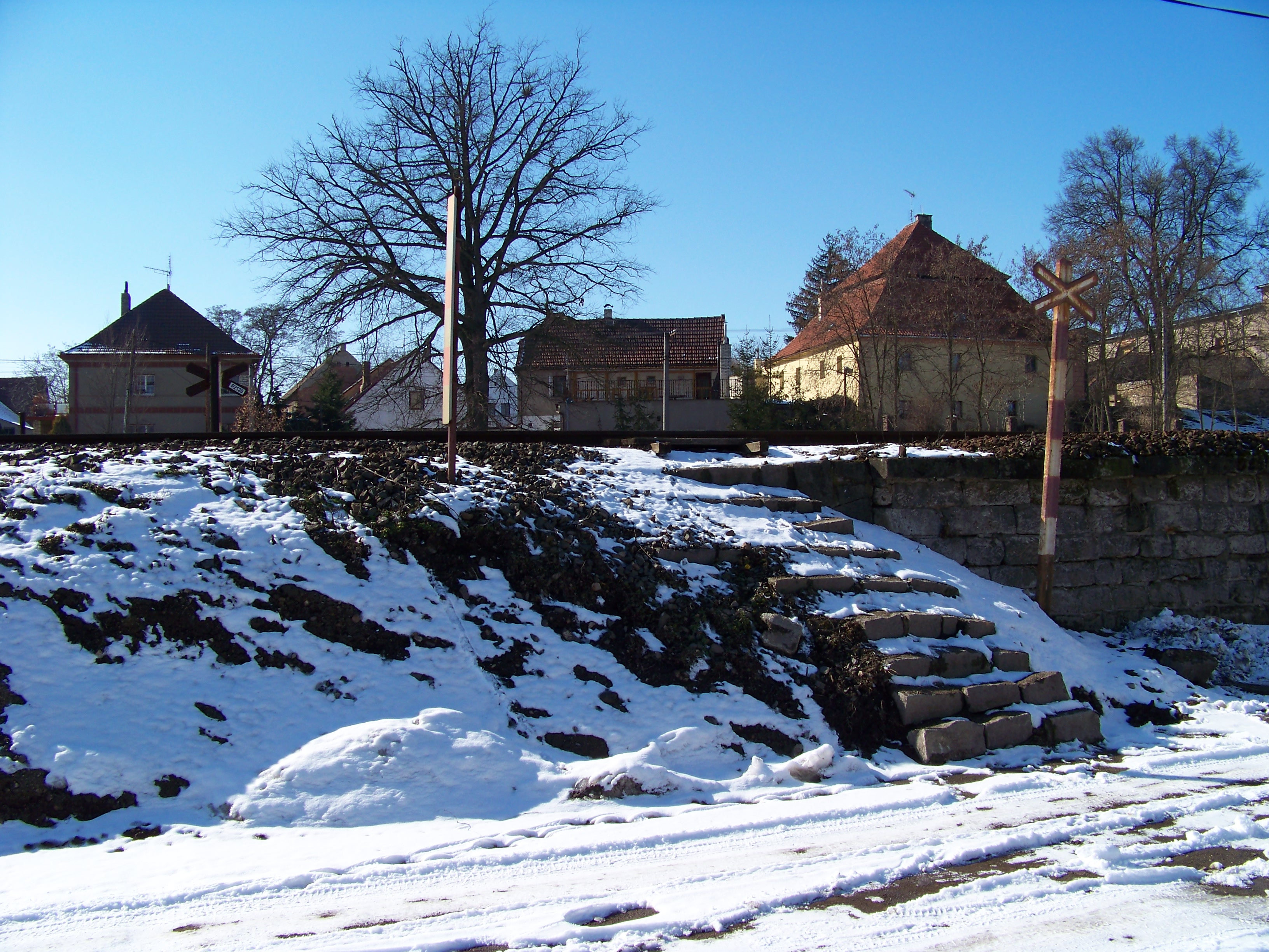 Olovnice, Mělník District, Central Bohemian Region, the Czech Republic. A stair railway crossing.